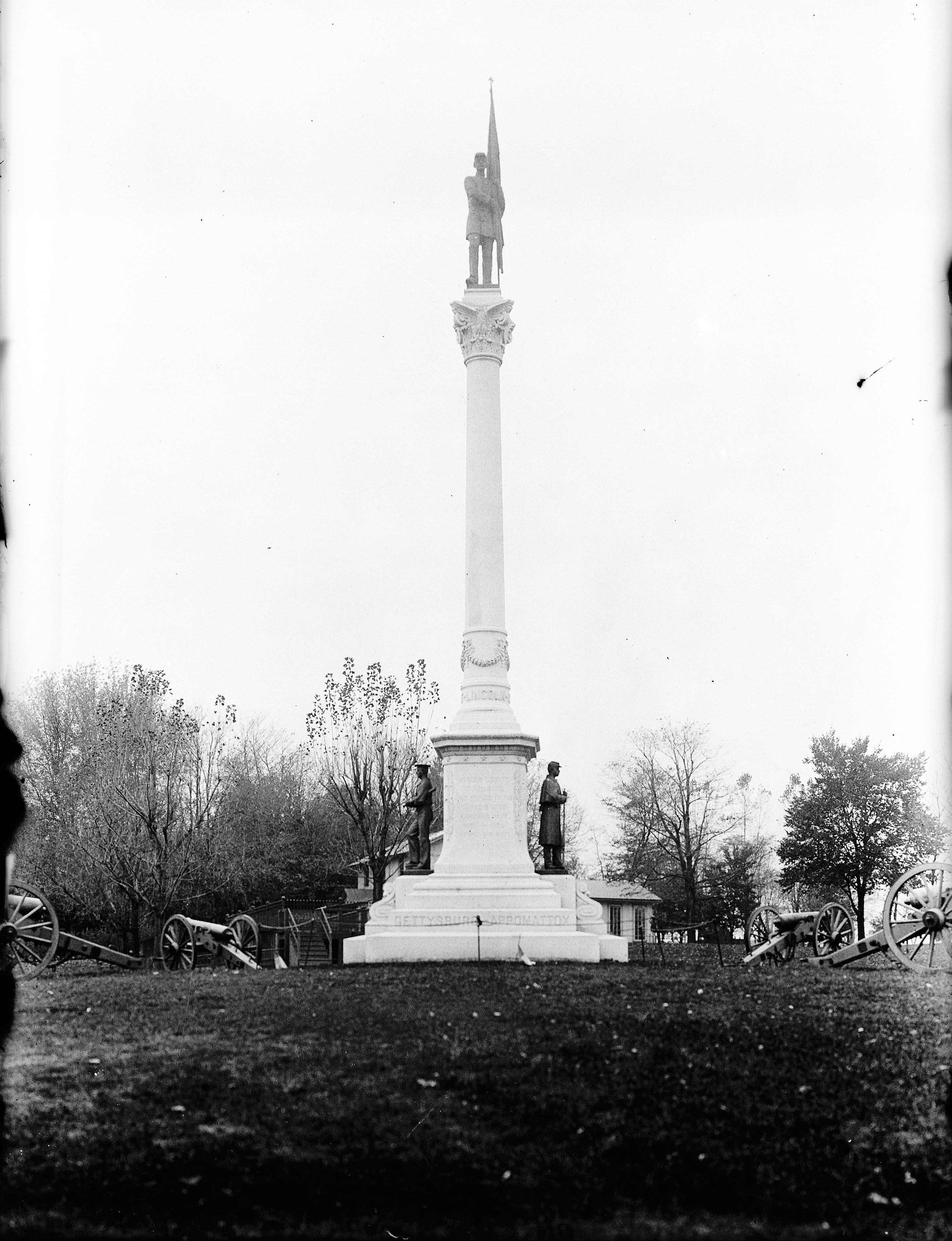 From 5x7 inch glass negatives. Photographs taken by A .L. Opdyke of 106 E. Hanover Street, Trenton, NJ. (1907-1918) Update: This is the Mercer County Soldiers’ and Sailors’ Monument in Cadwalader Park, Trenton, NJ. Detailed information about this monument can be found on this web page: Historical Marker Database